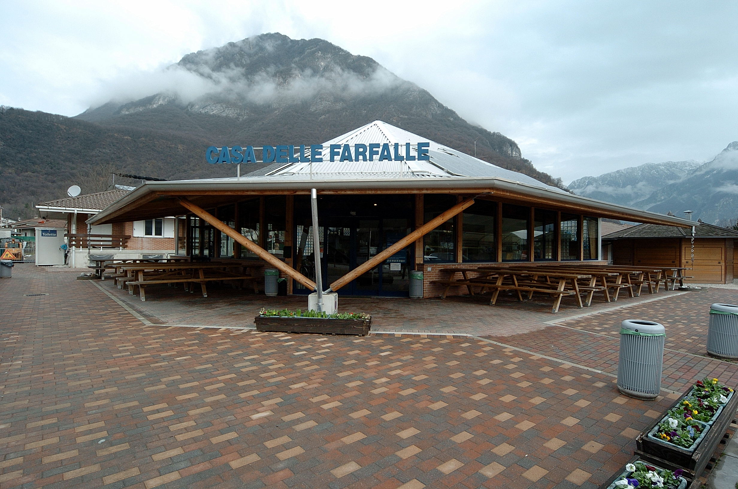 Butterfly-, spider- and reptile-zoo in the village Bordano, situated in the state Friuli-Venezia Giulia, Italy